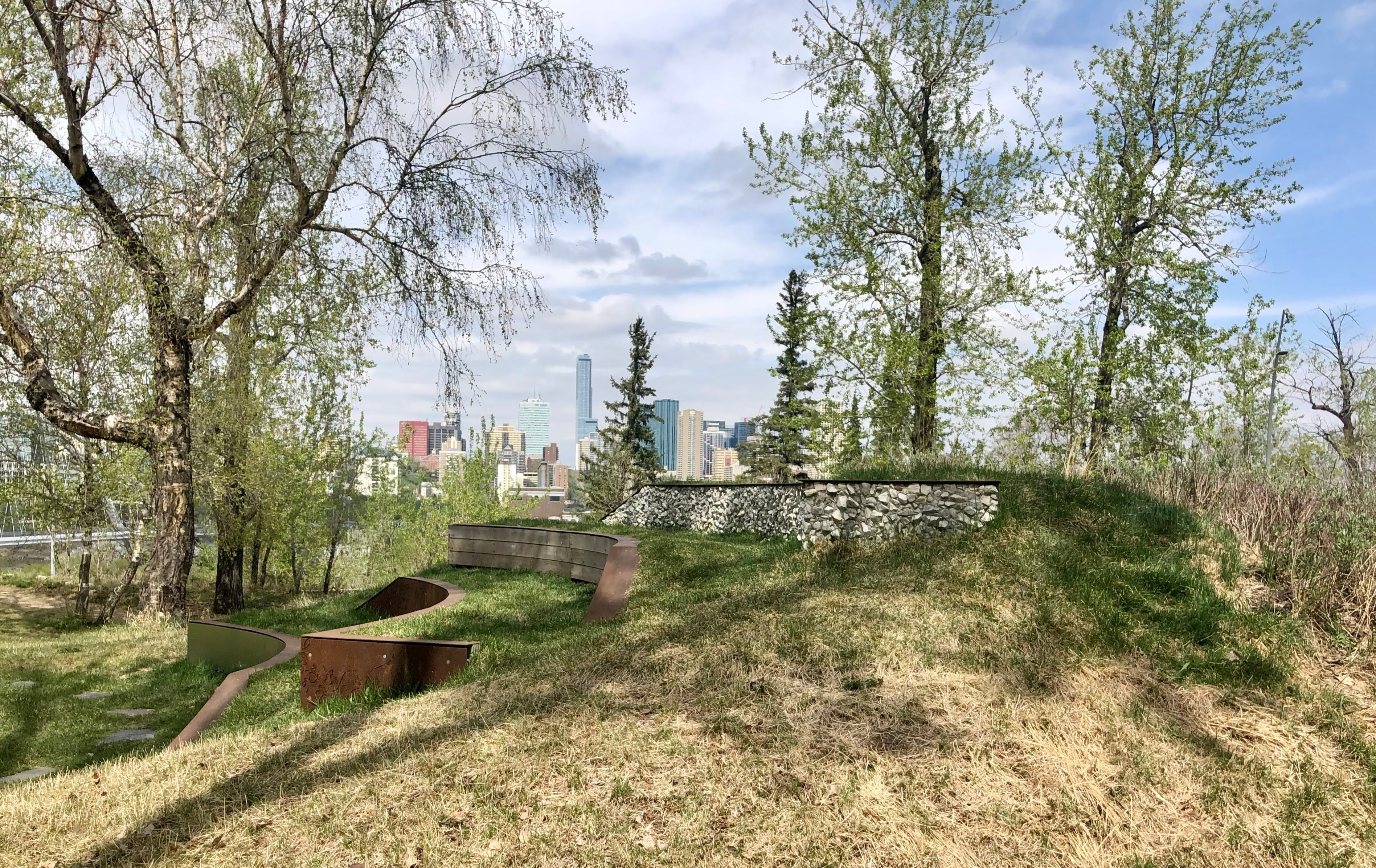 Pehonan by Tiffany Shaw-Collinge in Indigenous Art Park, ᐄᓃᐤ (ÎNÎW) River Lot 11 on a spring day. Downtown Edmonton in the background.